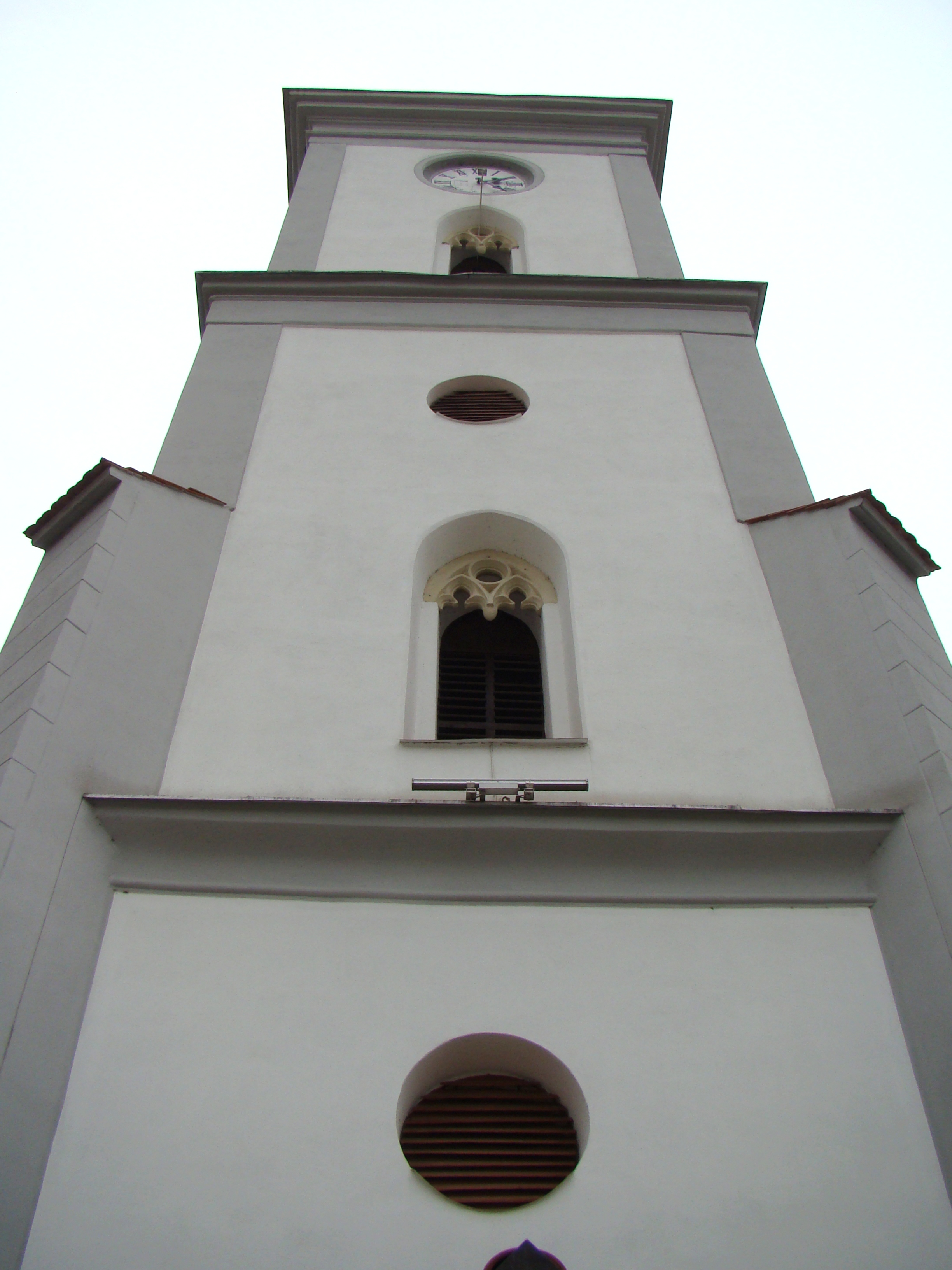 Reformed church in Beclean, Bistrița-Năsăud county, Romania